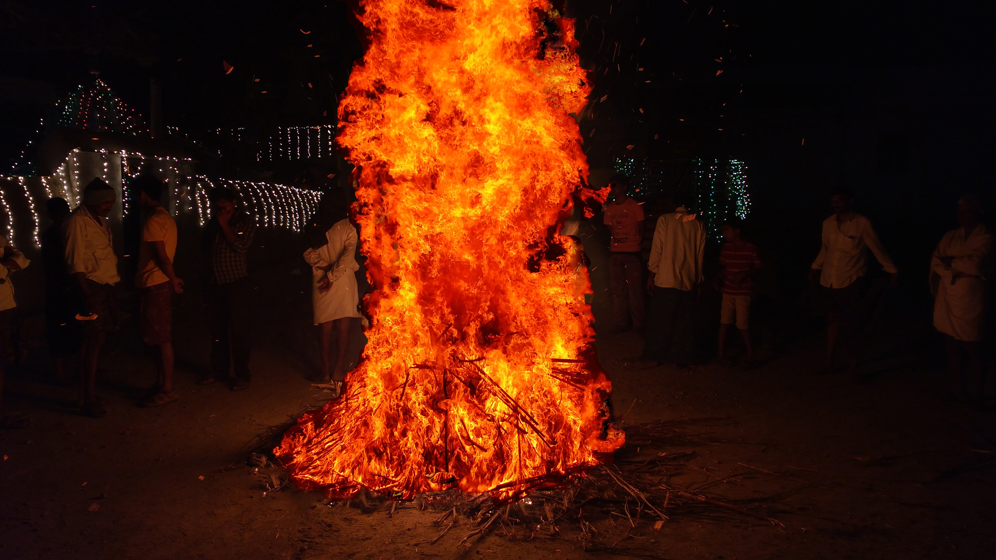 Bhogi flames in K.Rajupalem in Early Morning of the First day — Flame your past in Bhogi to invite new hopes